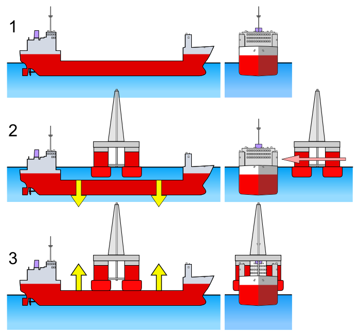 Float-On / Float-Off (or Flo/Flo) Ship